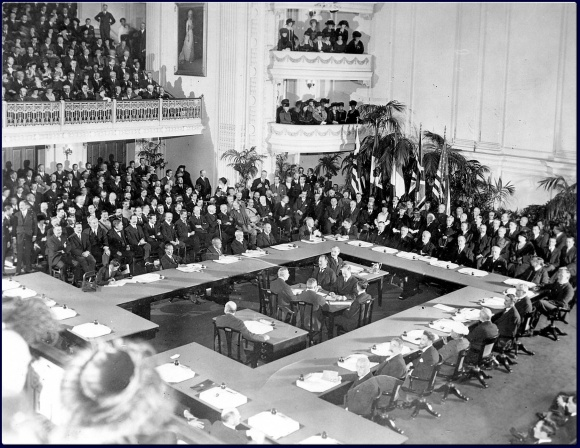 Delegations during signing of the Treaty of Versailles